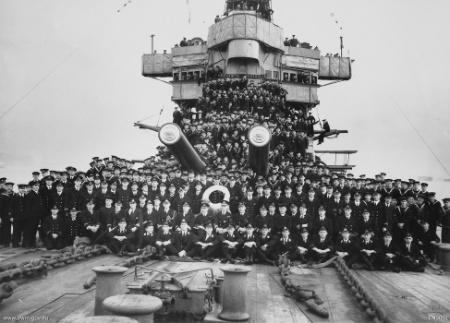 A group portrait of the crew of Australian battlecruiser HMAS Australia's crew in the Firth of Forth.